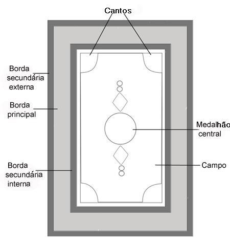 Rug composition scheme. In Portuguese this image was redrawn from Fabienkhan.